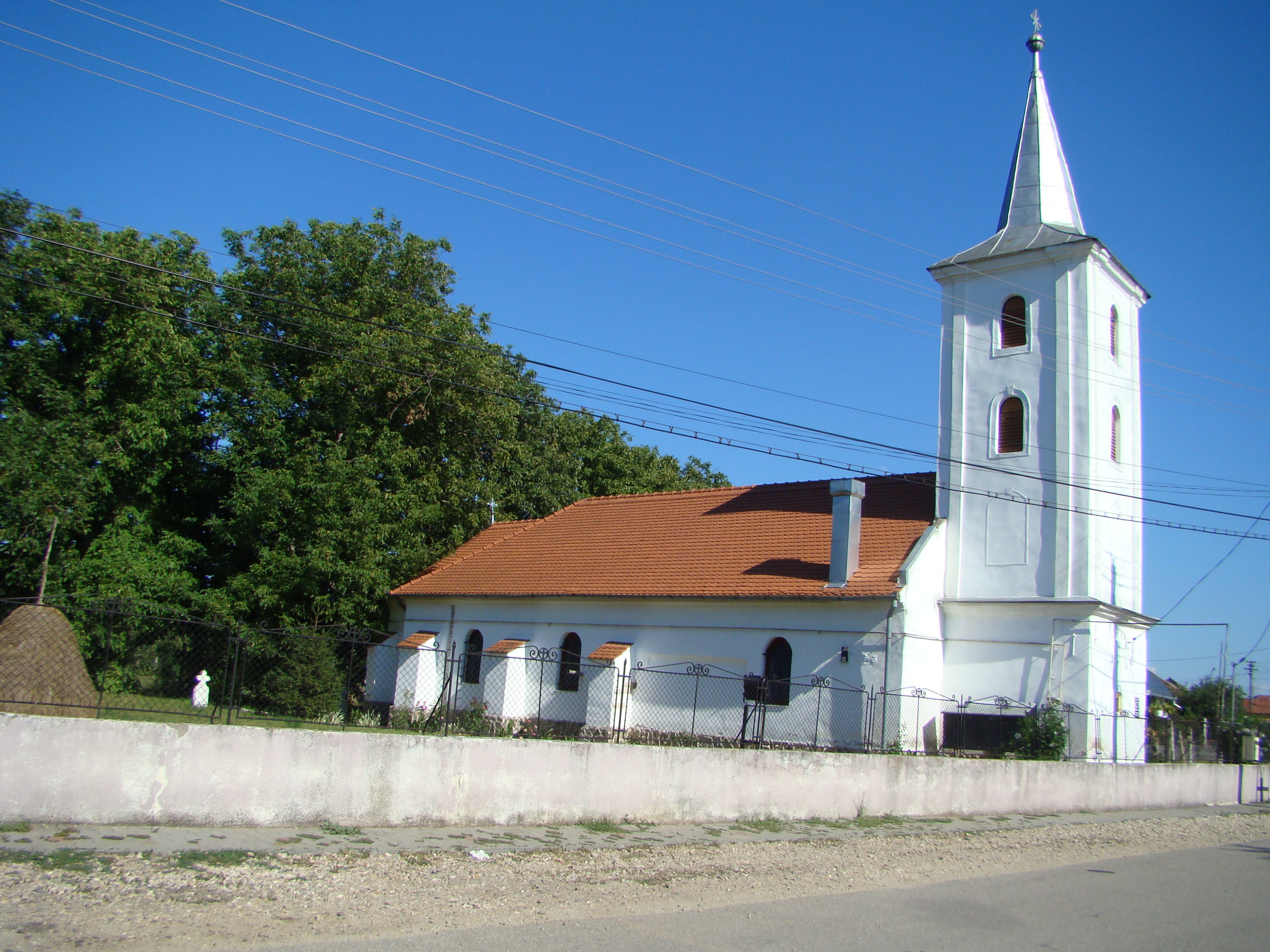 Church of the Dormition in Vințu de Jos; Alba county, Romania